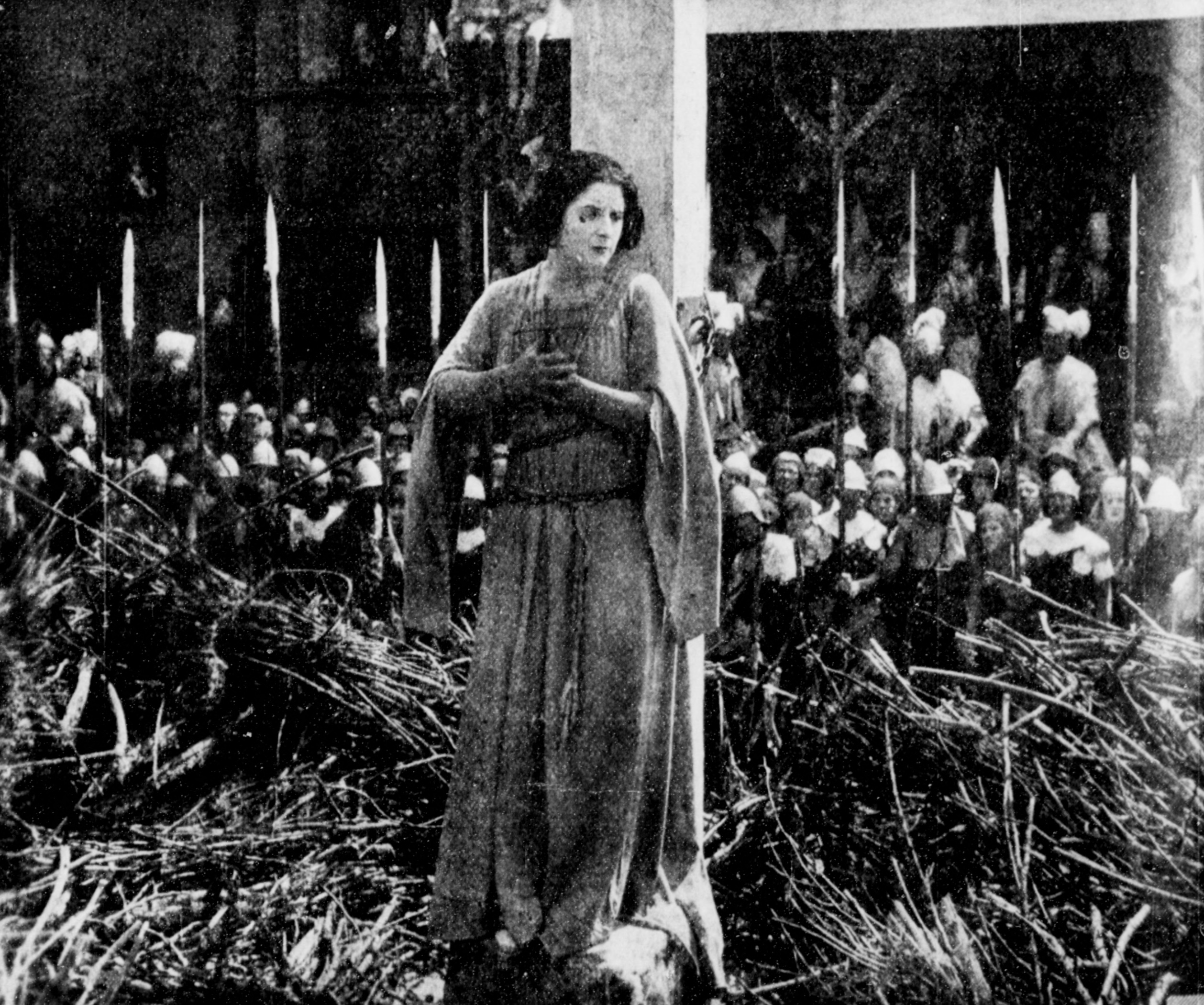 Original caption: Geraldine Farrar adds an achievement to her cinema career in "Joan the Woman" a film story of the life of Joan of Arc. This image: Joan watches her executioner light the fagots. This is from a newspaper.